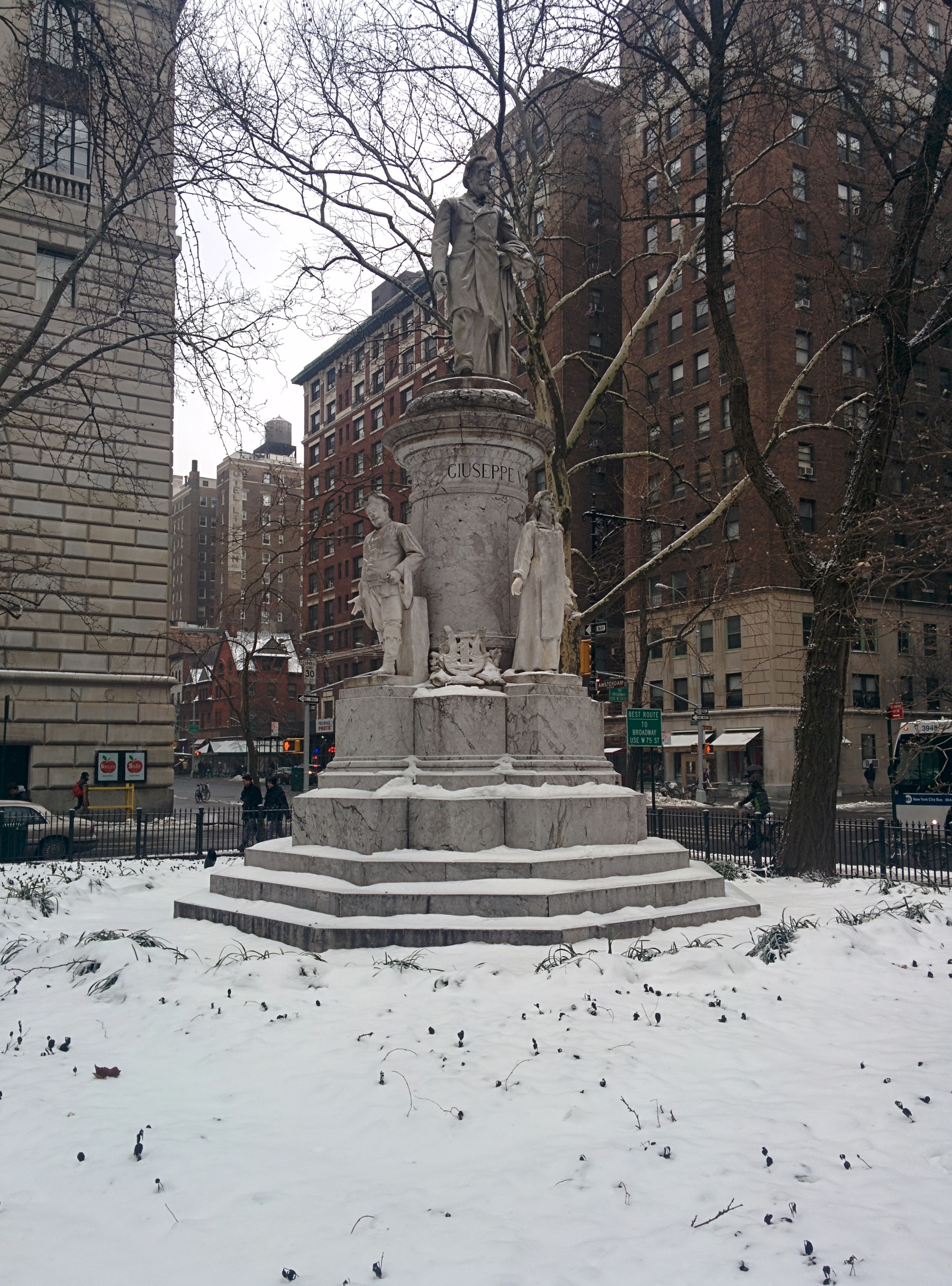 Stature of Giuseppe Verdi on a snowy January 2013 day at Verdi Square in New York City